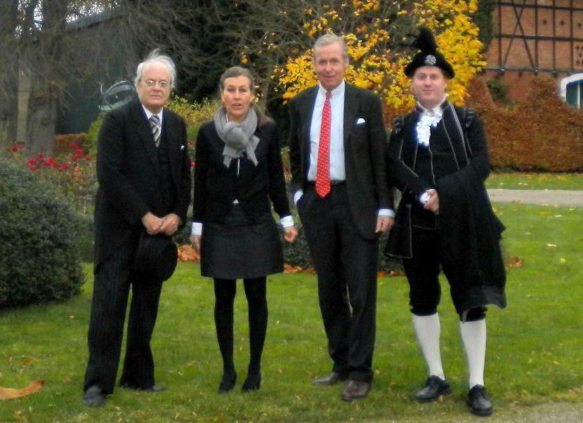 Jacob Truedson Demitz (Lars Jacob), H.S.H. Princess Elisabeth of Schleswig-Holstein, H.S.H. Prince Christoph of Schleswig-Holstein and Emil Eikner at Grünholz Manor, as released by image creator Ristesson;Place: Thumby, Germany